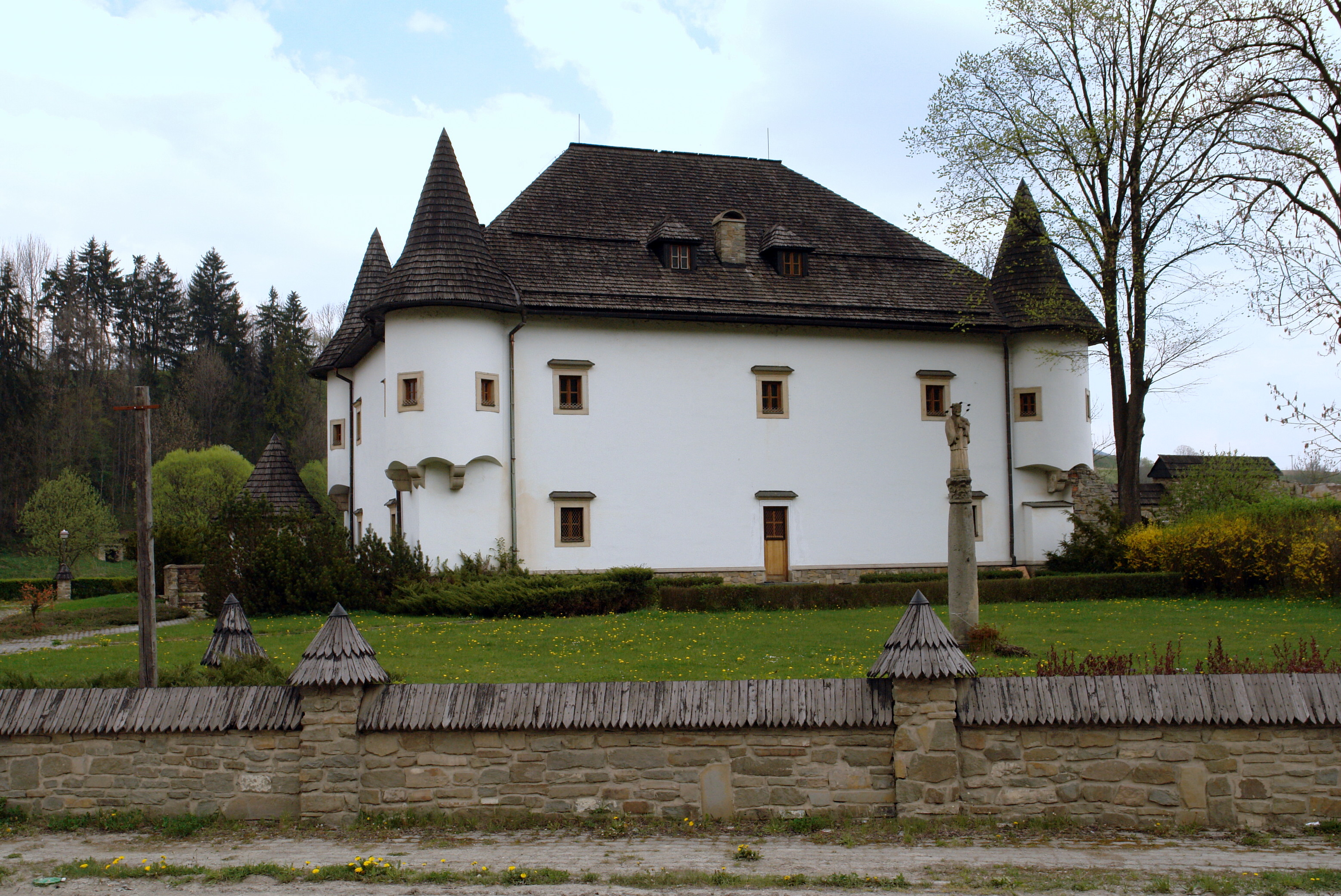 Horná Lehota Castle